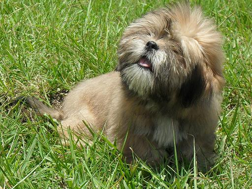 16 week old male pure-breed Lhasa Apso puppy